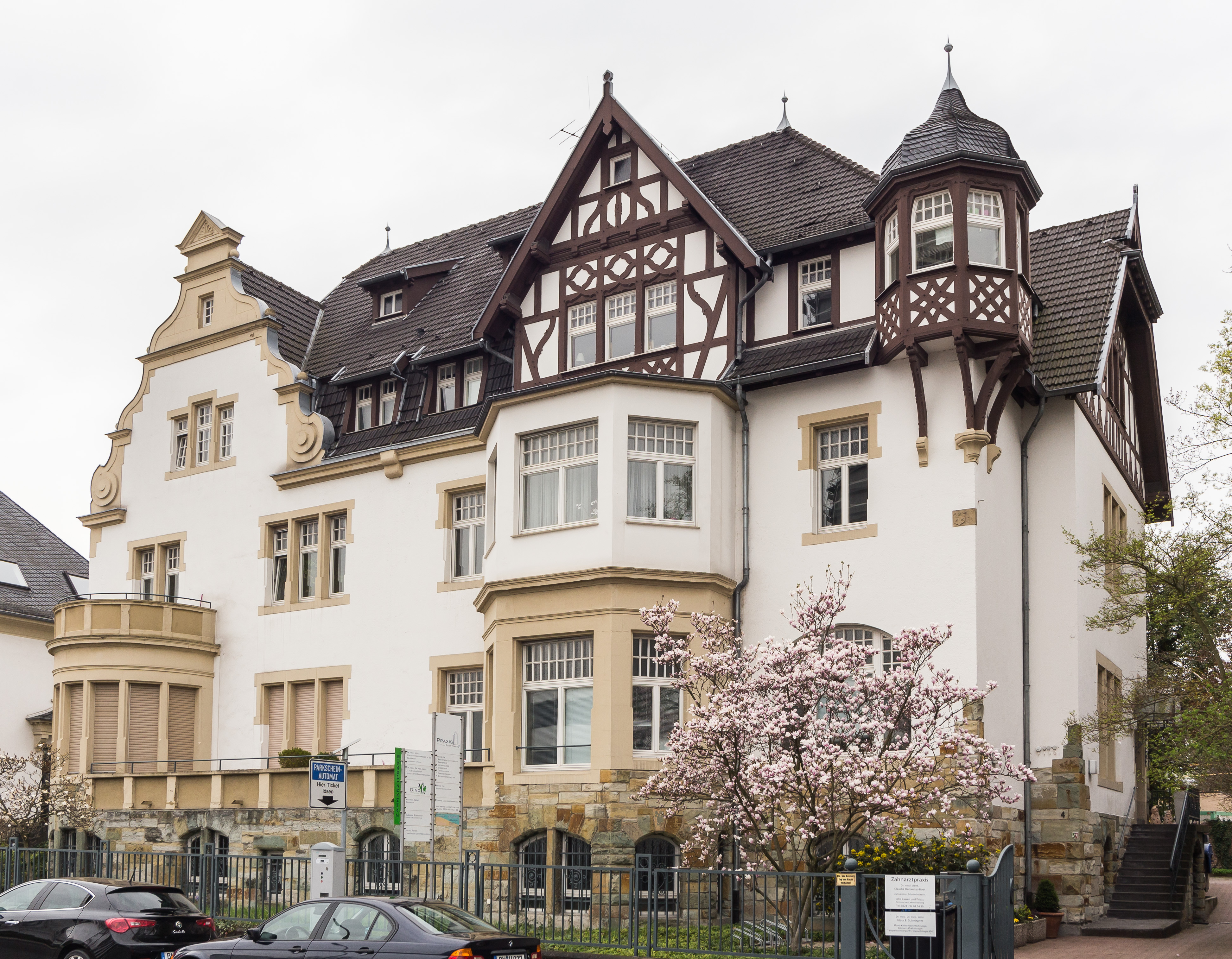 Double villa Kurt-Schumacher-Straße 4/6, Bonn (6 left, 4 right), view from north